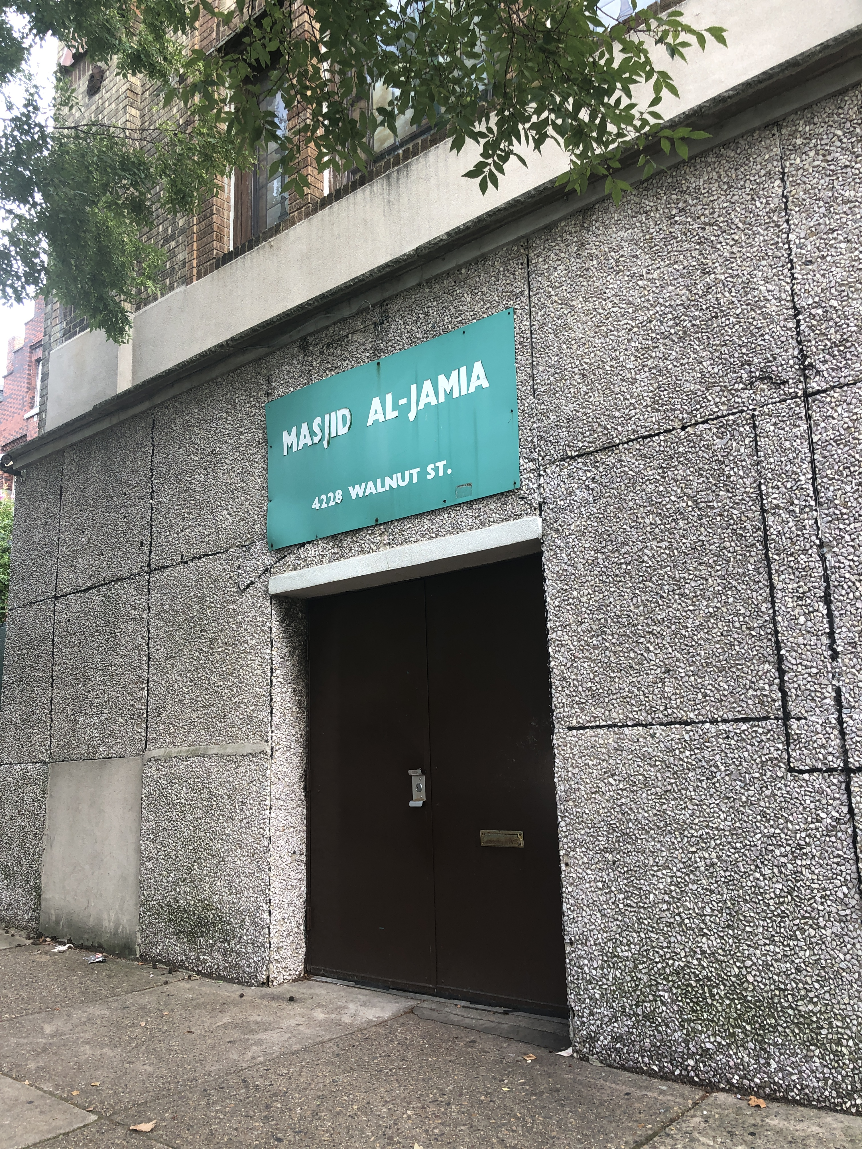 Side view door of Masjid Al-Jamia of Philadelphia